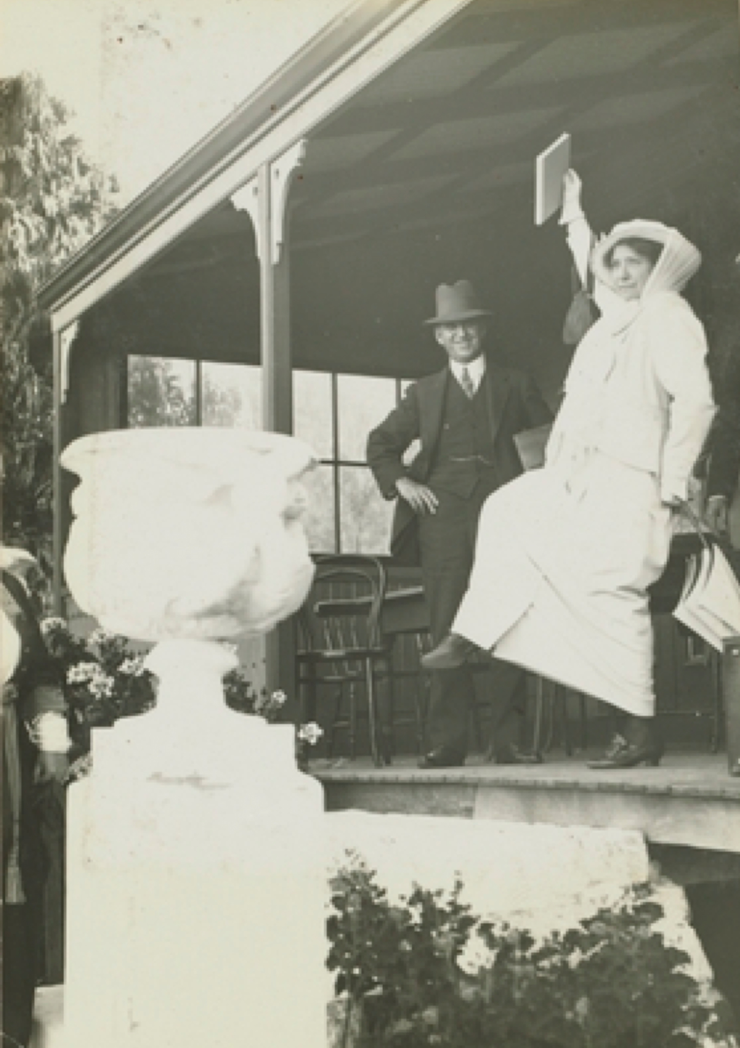 John Lemmone and Dame Nellie Melba at Bilgola, Wednesday 23 September 1914. (Courtesy Mitchell Library, State Library of New South Wales)